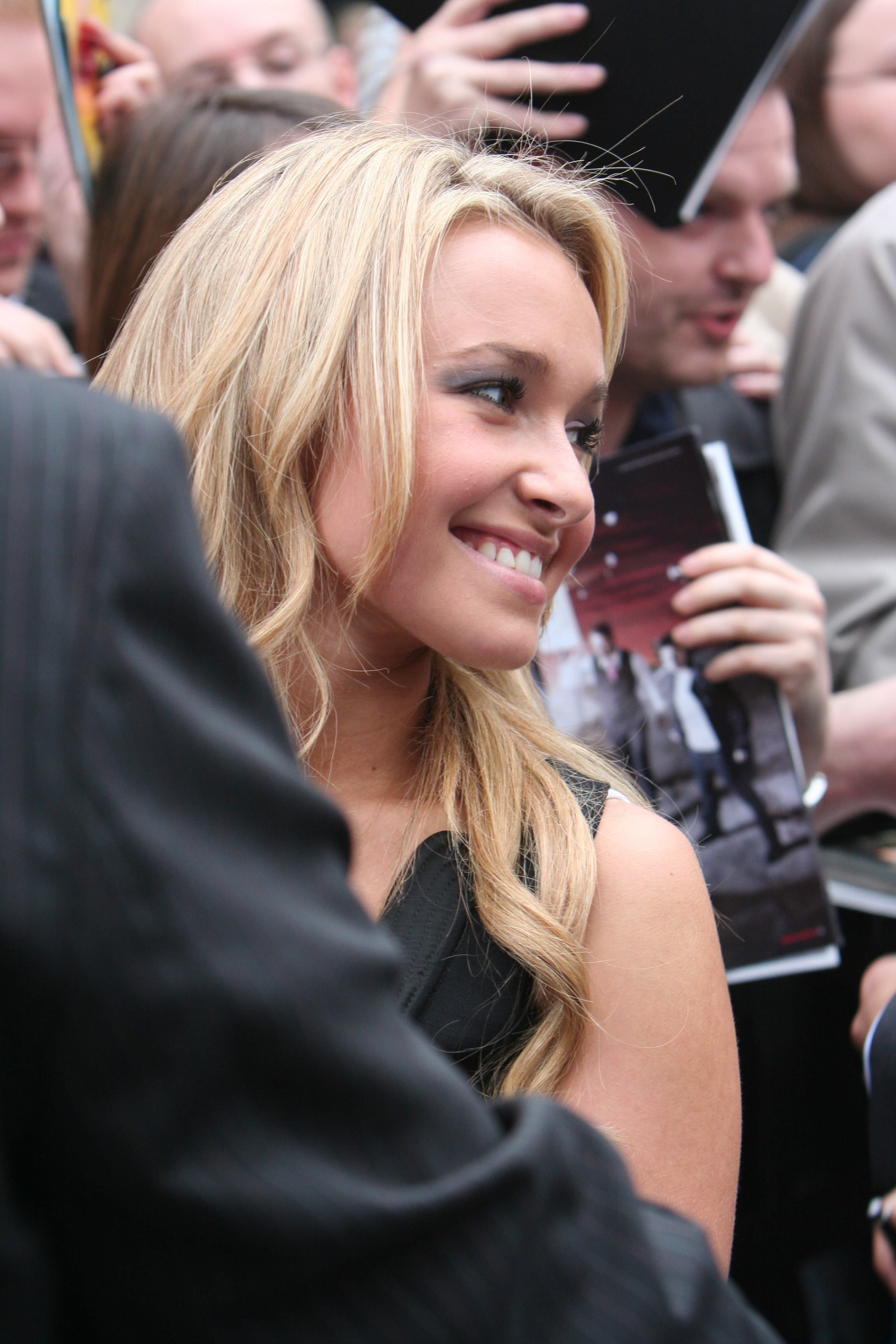 Heroes World Tour autograph signing session at the London Eye.